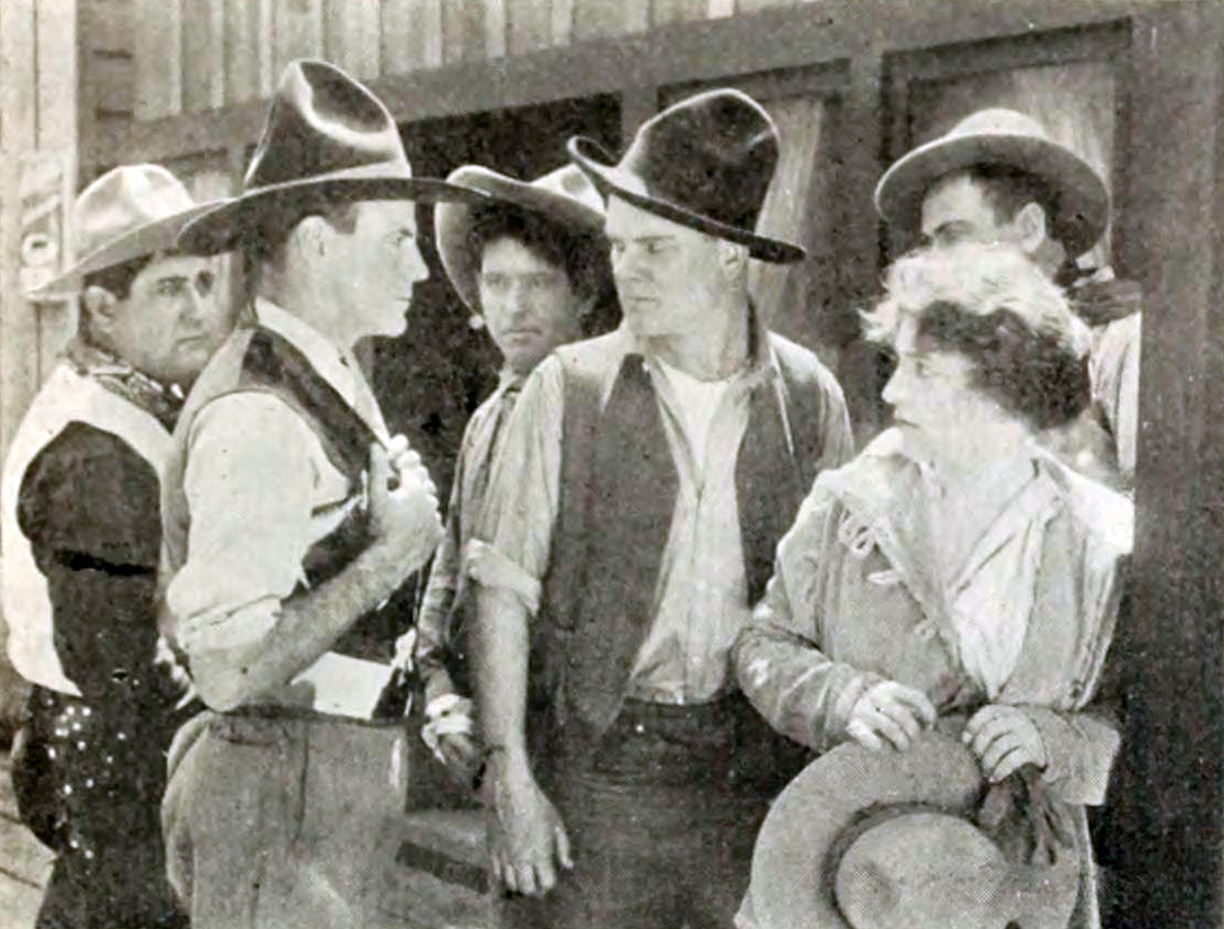 Illustration of an article in The Moving Picture World